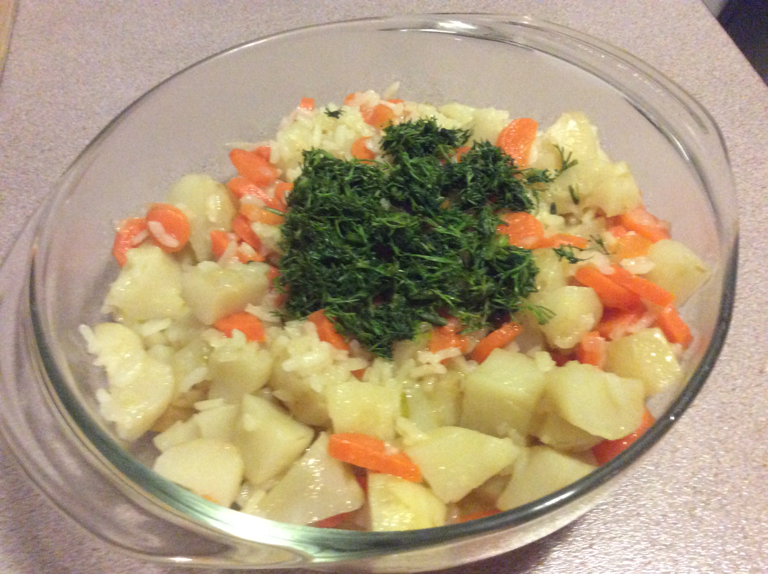 Zeytinyağlı yeralması, or earth apples cooked in olive oil, from the Turkish cuisine.